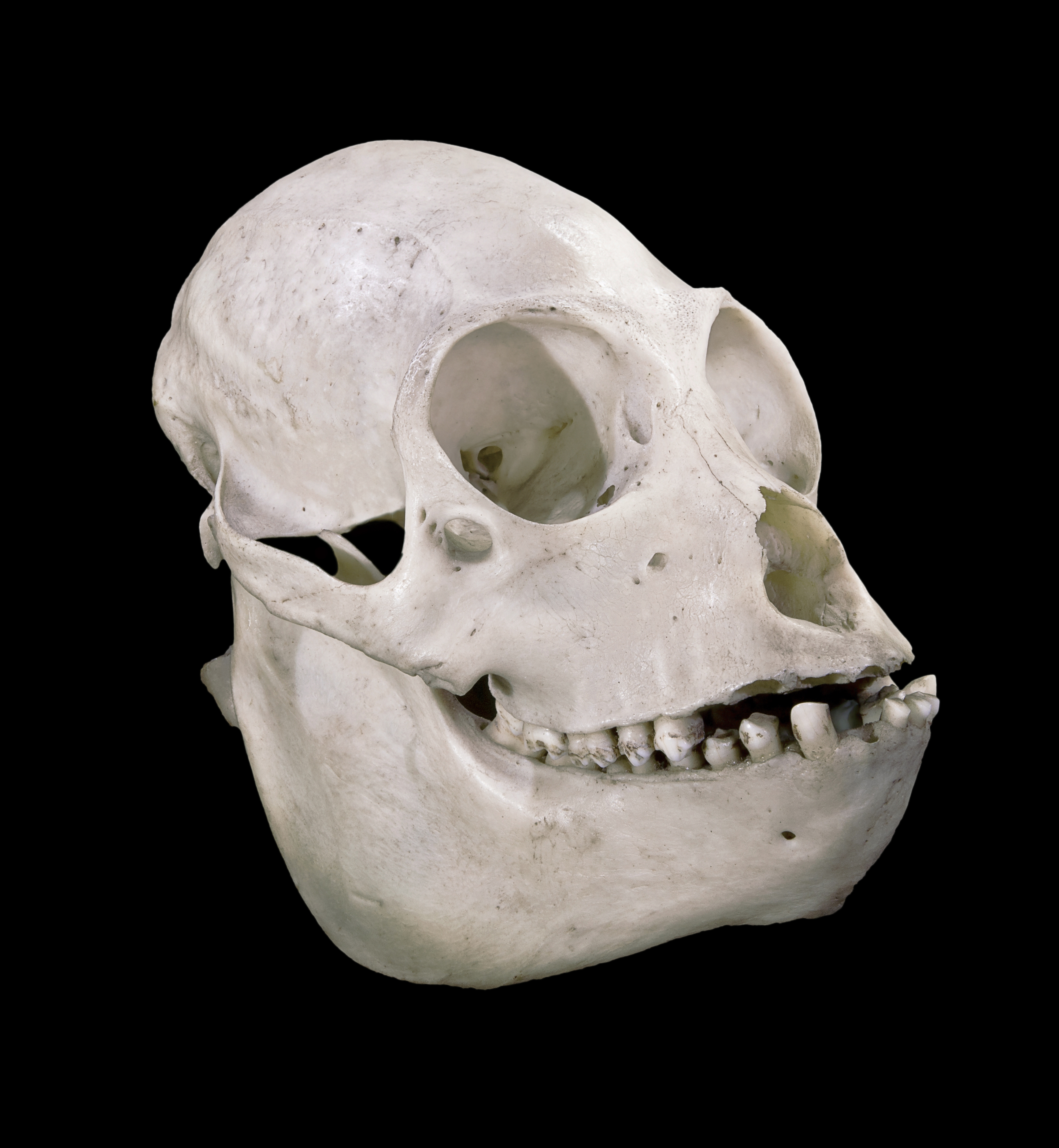 Red howler monkey Alouatta seniculus (Linnaeus 1766) (View ¾ face.) – French Guiana; size: 10 × 10 × 9.6cm